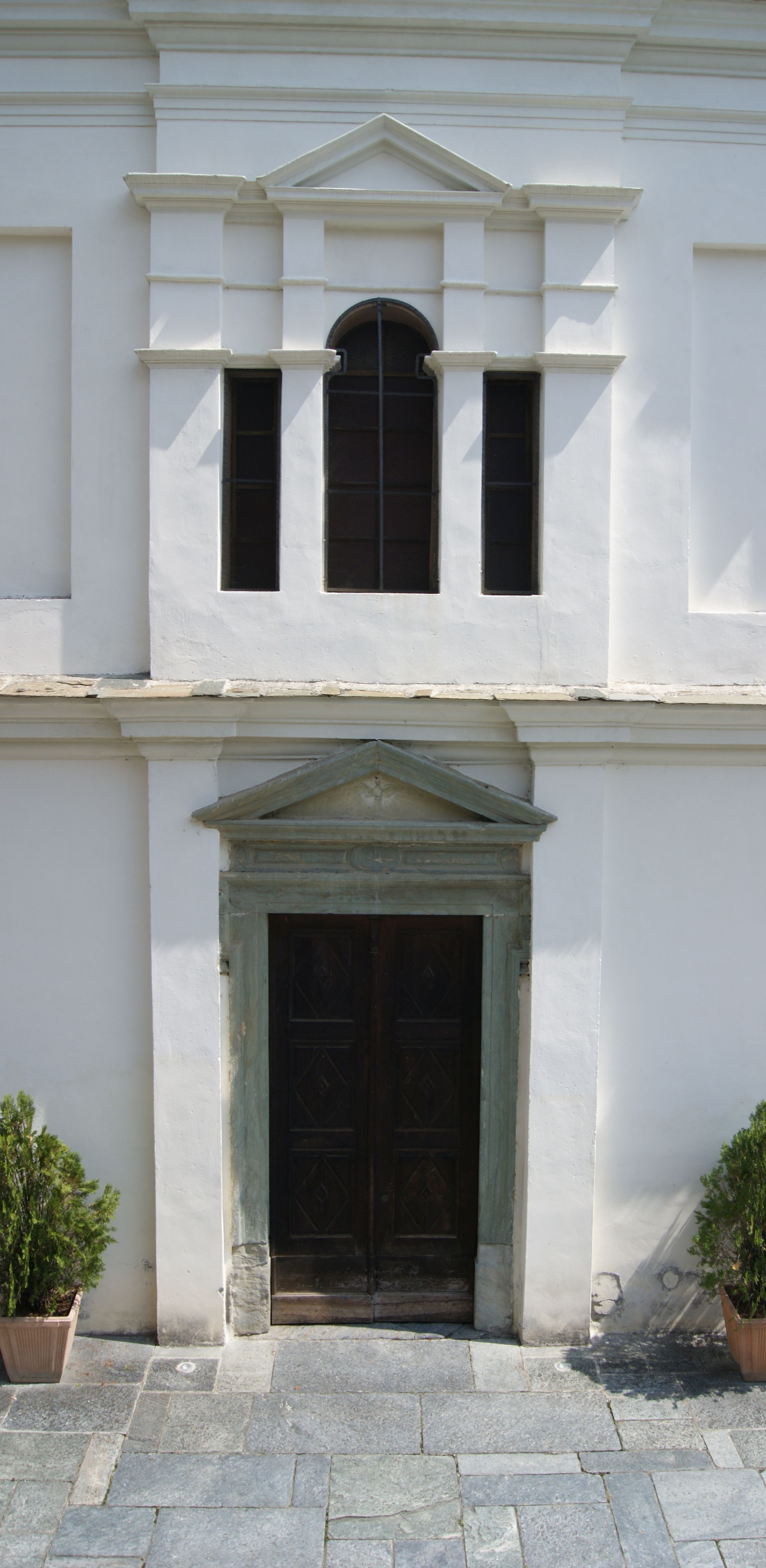 Baruffini, part of Tirano in Italy. Church of San Pietro Martire in Baruffini, part of Tirano in Italy.